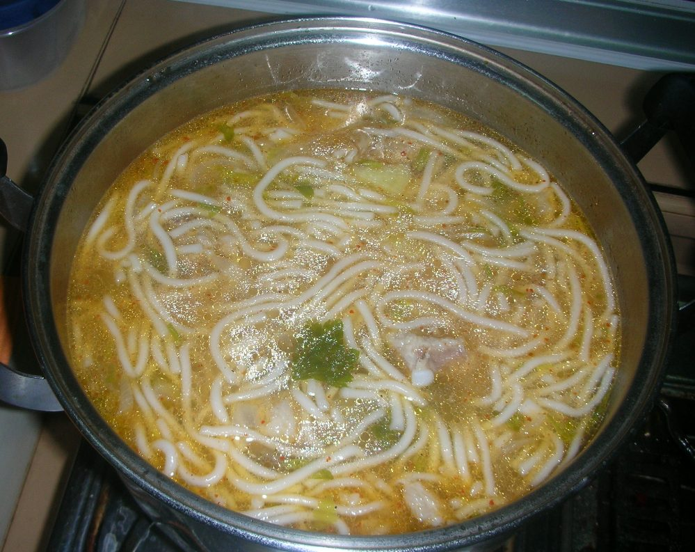 Clear Vietnamese noodle soup